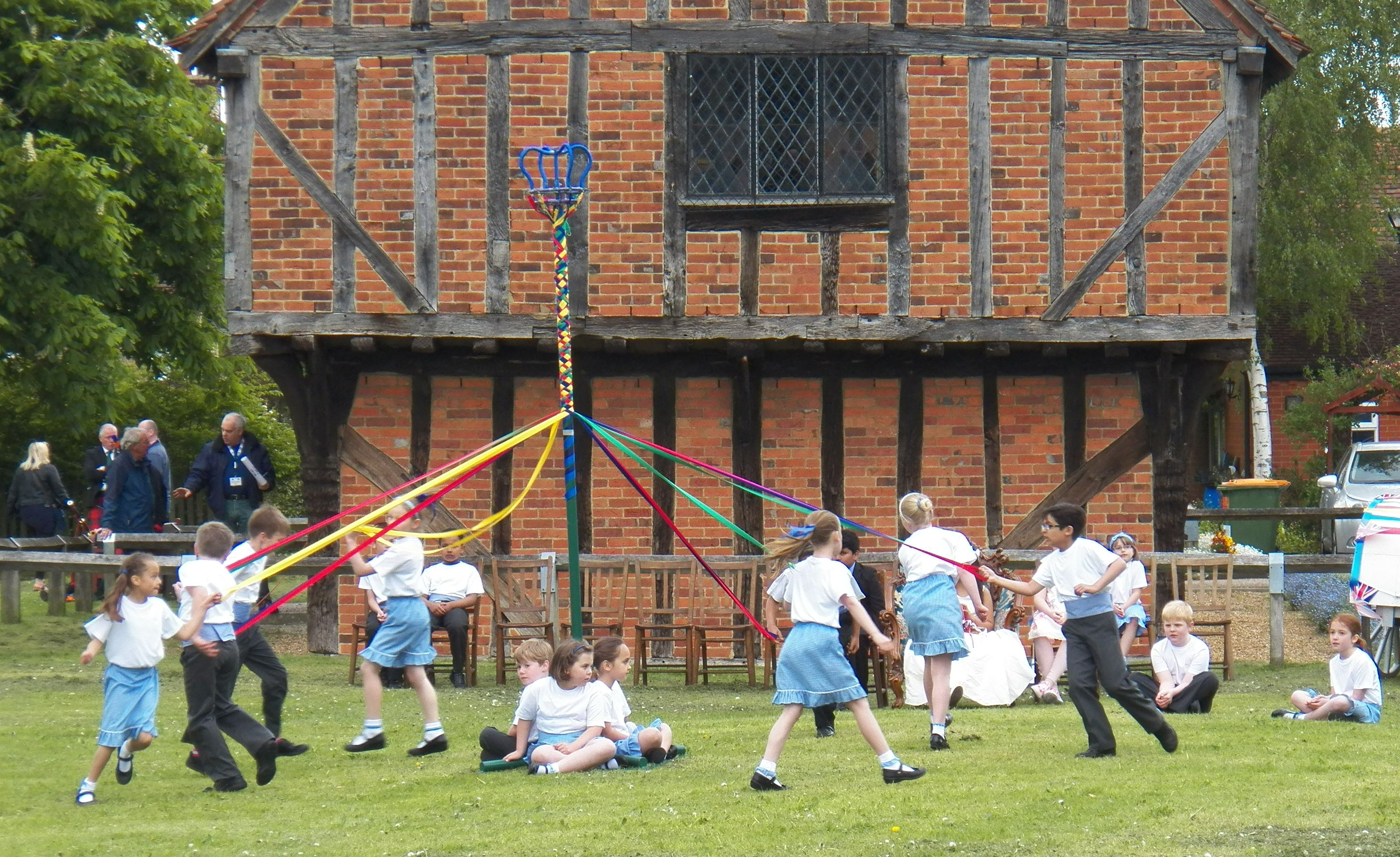 The May Festival in Elstow, Bedfordshire, UK in 2013